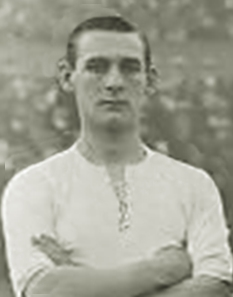 Fred Webster - Tottenham - 1913-14 - Cropped from Spurs postcard from 1913.